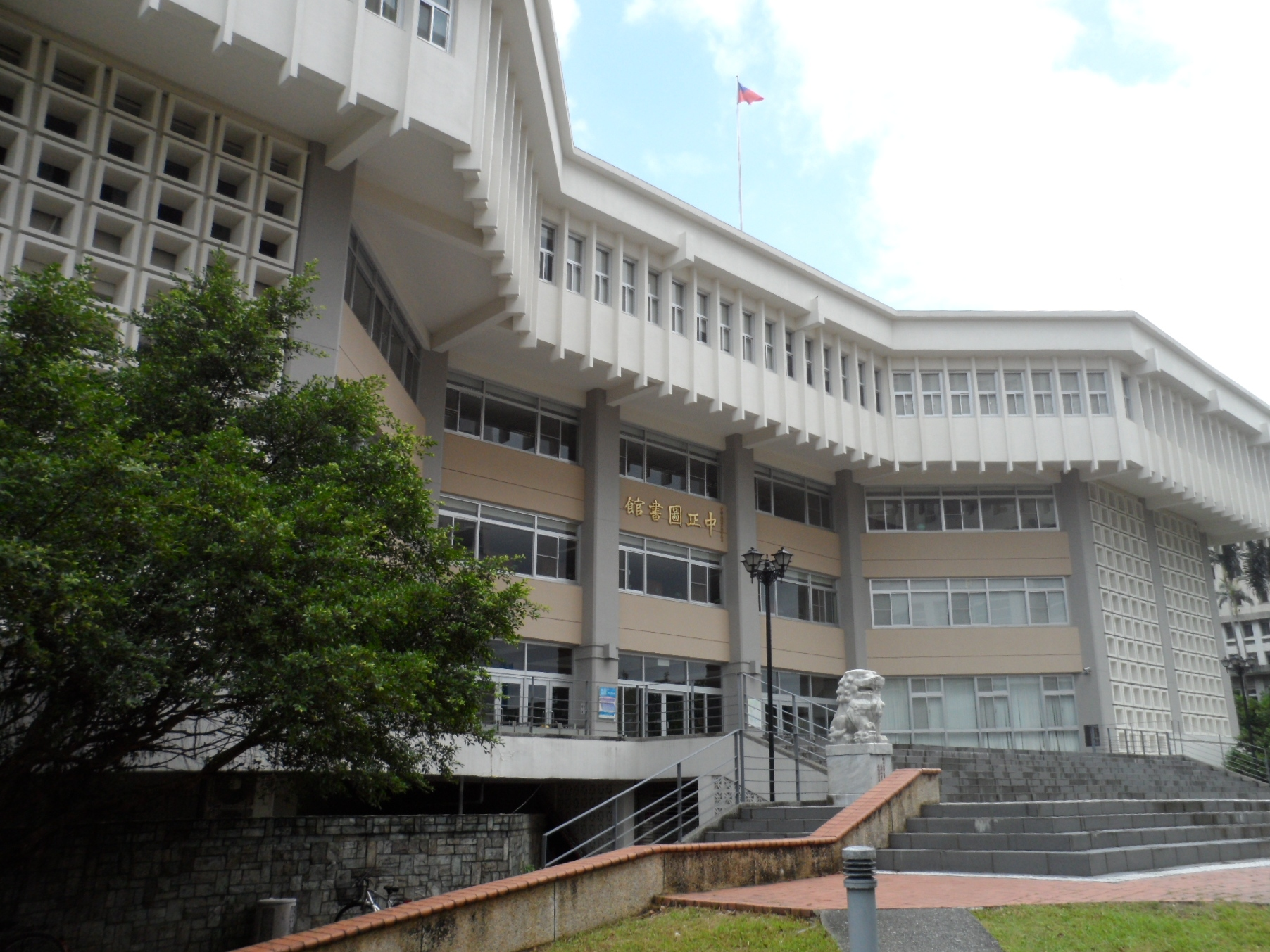 Chiang Kai-shek Library, National Chengchi University